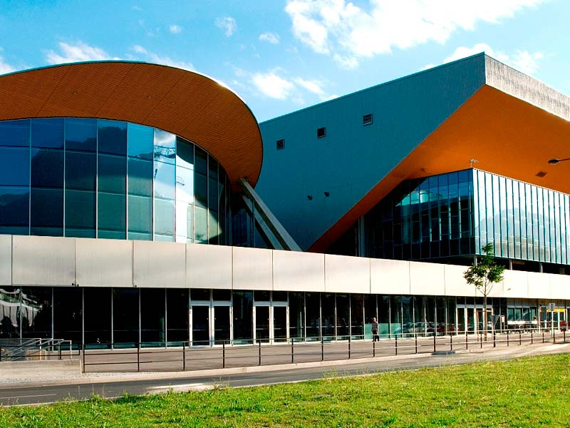 Olympiahalle in Innsbruck, Austria.